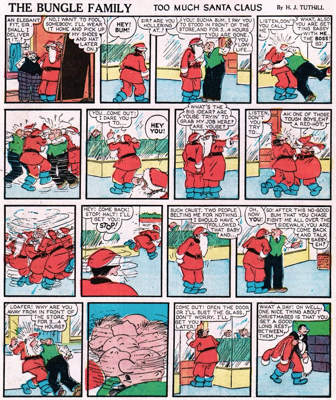 Comic strip of The Bungle Family. A search for renewal in contributions to publications and artwork was done for the years 1963 and 1964. There were no listings for either McNaught or Tuthill; there's no evidence of a continuing copyright claim on this.